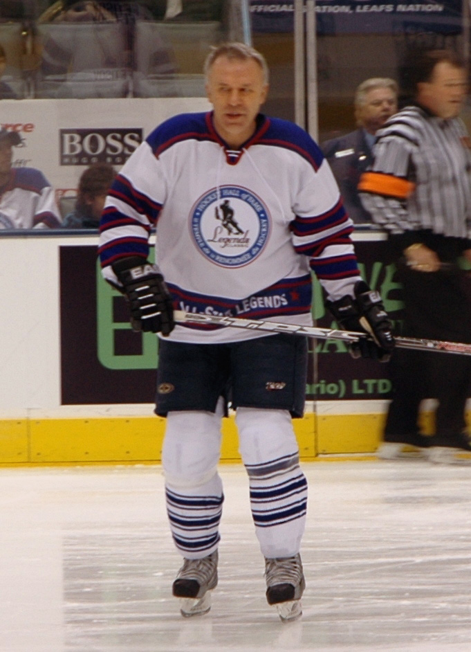 Viacheslav Fetisov played with the All-Star Legends 2008 in Toronto